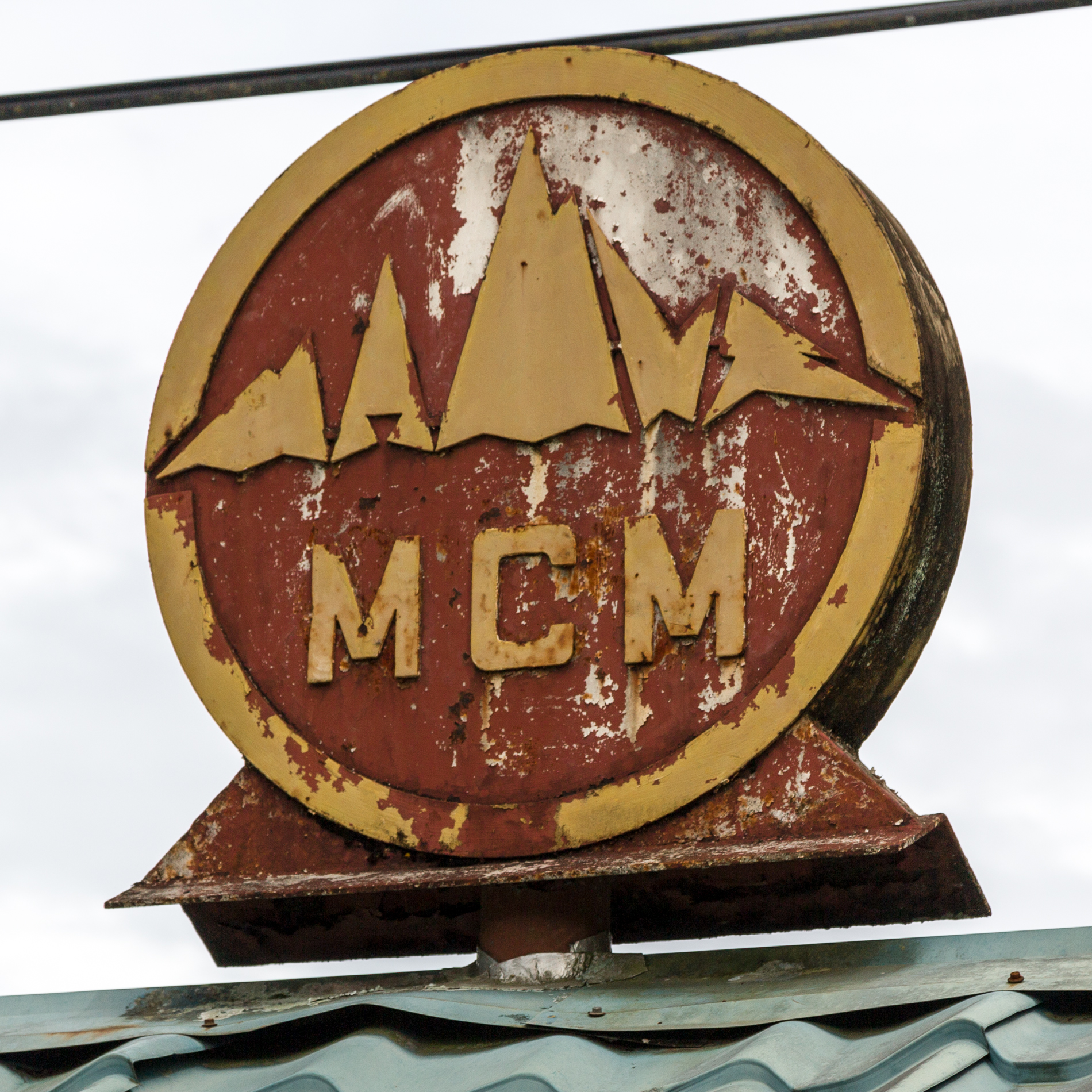 Ranau, Sabah: Mamut Copper Mine. The corporate sign of Mamut Copper Mine Snd Bhd on top of a former company bus station in town